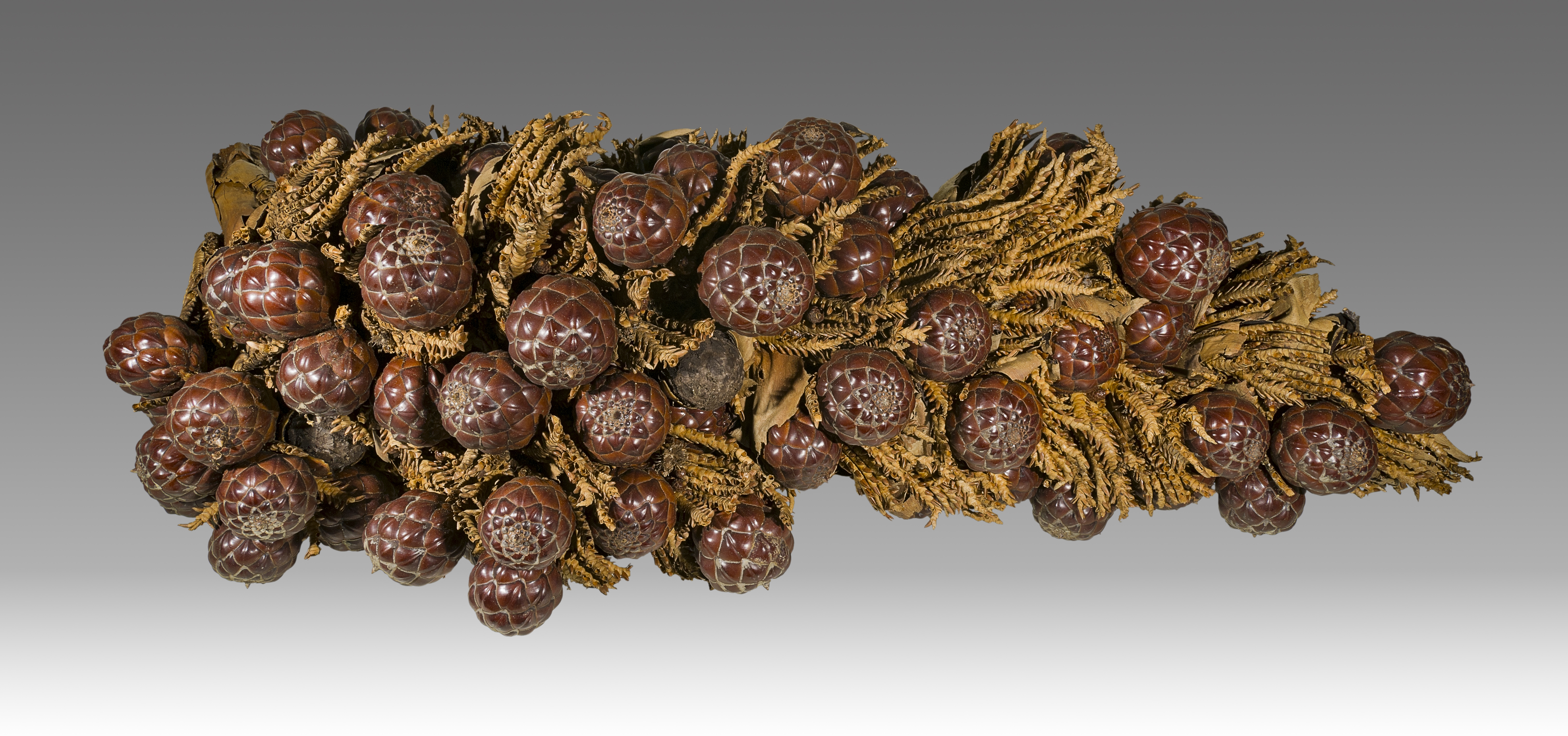 Raffia palm - Ripe fruit - Old collection of de Benjamin Balansa (1825-1891) Size : 78x21x22.5 cm